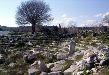 Odeon of the ancient city of Teos in Seferihisar, Turkey